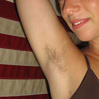 A photo of an American female's underarm hair.